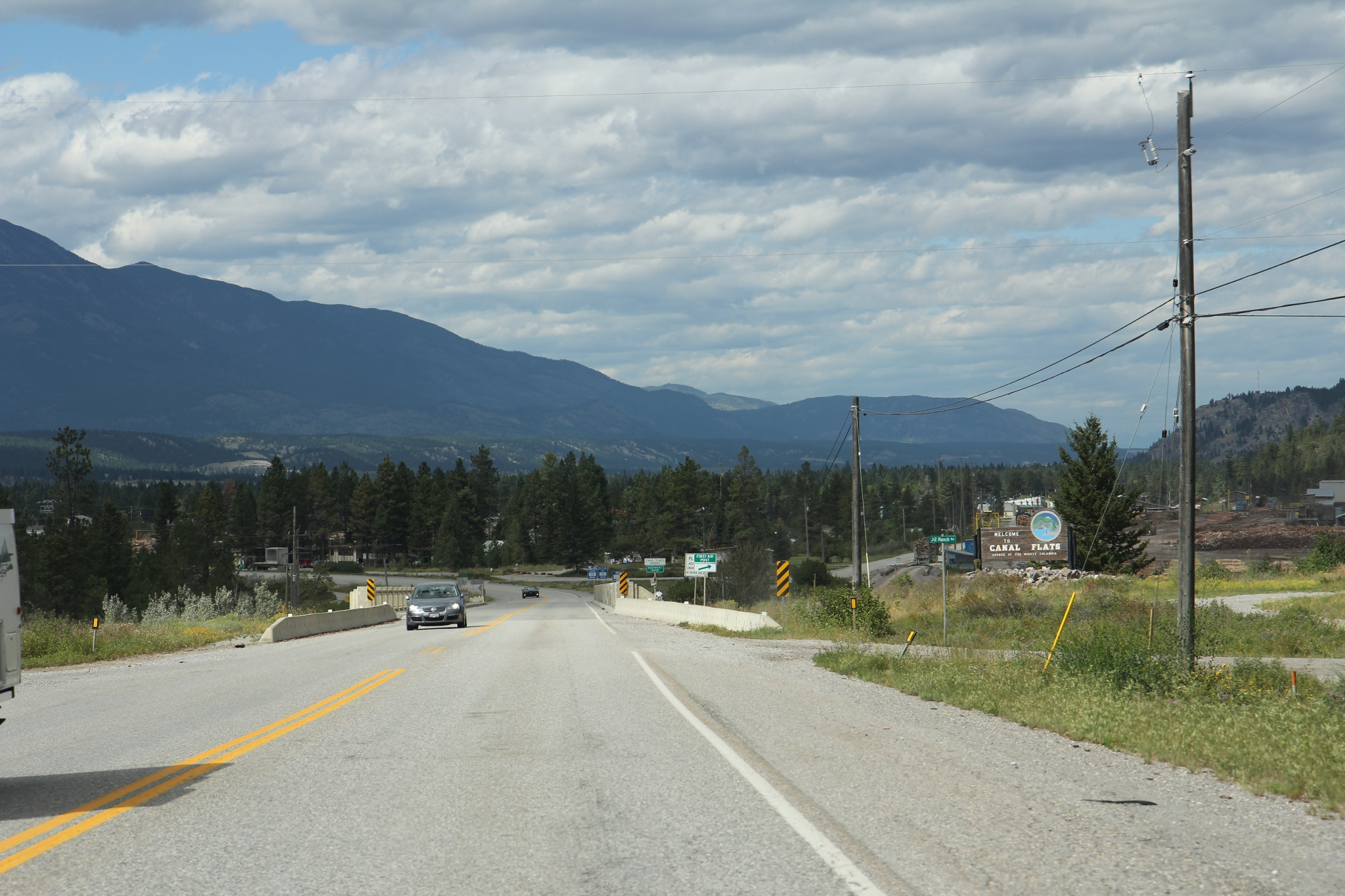 Canal Flats, BC looking north on BC93 and BC95